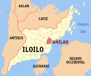 Map of Iloilo showing the location of Anilao